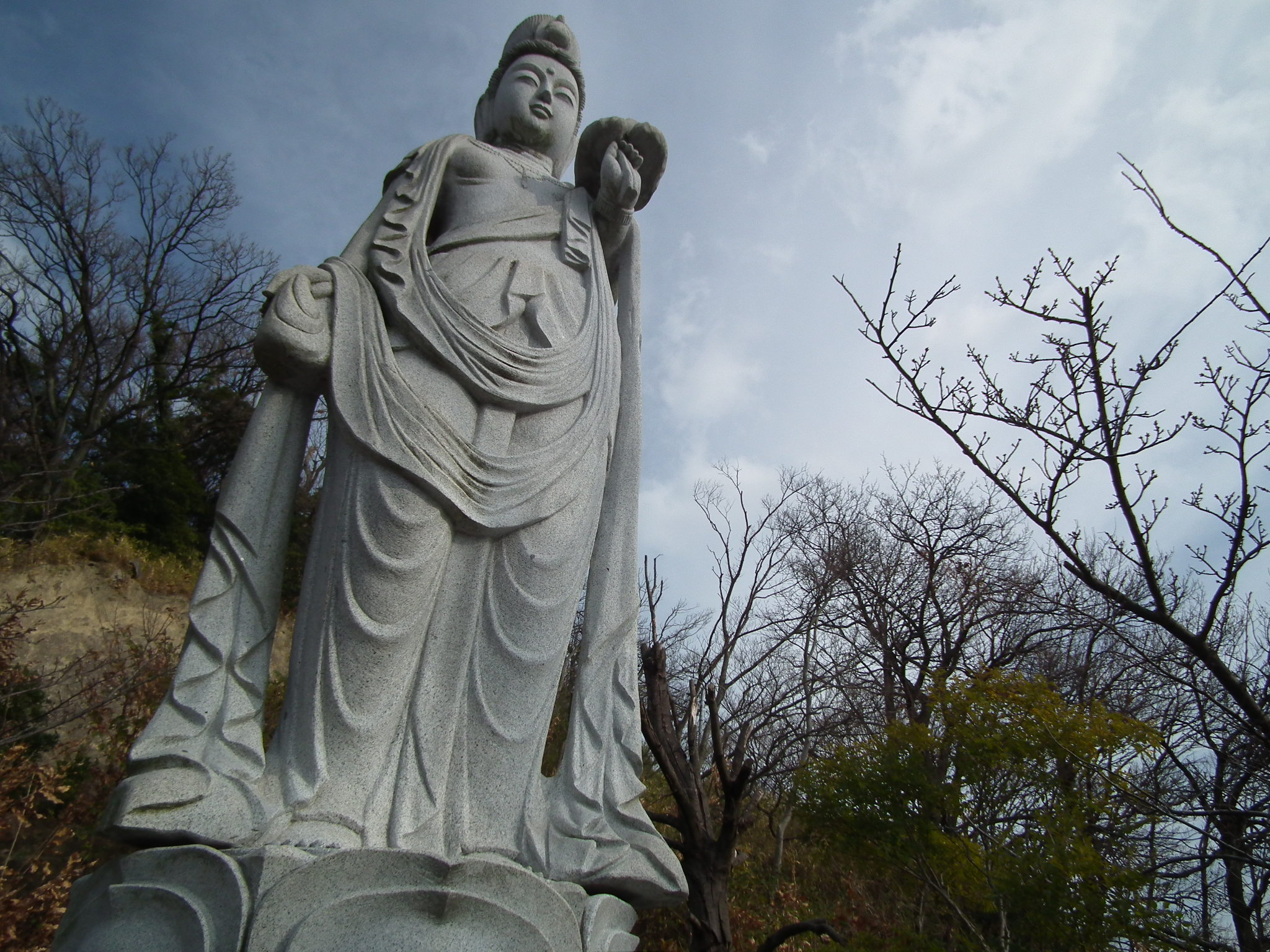 Maruyama-kanon